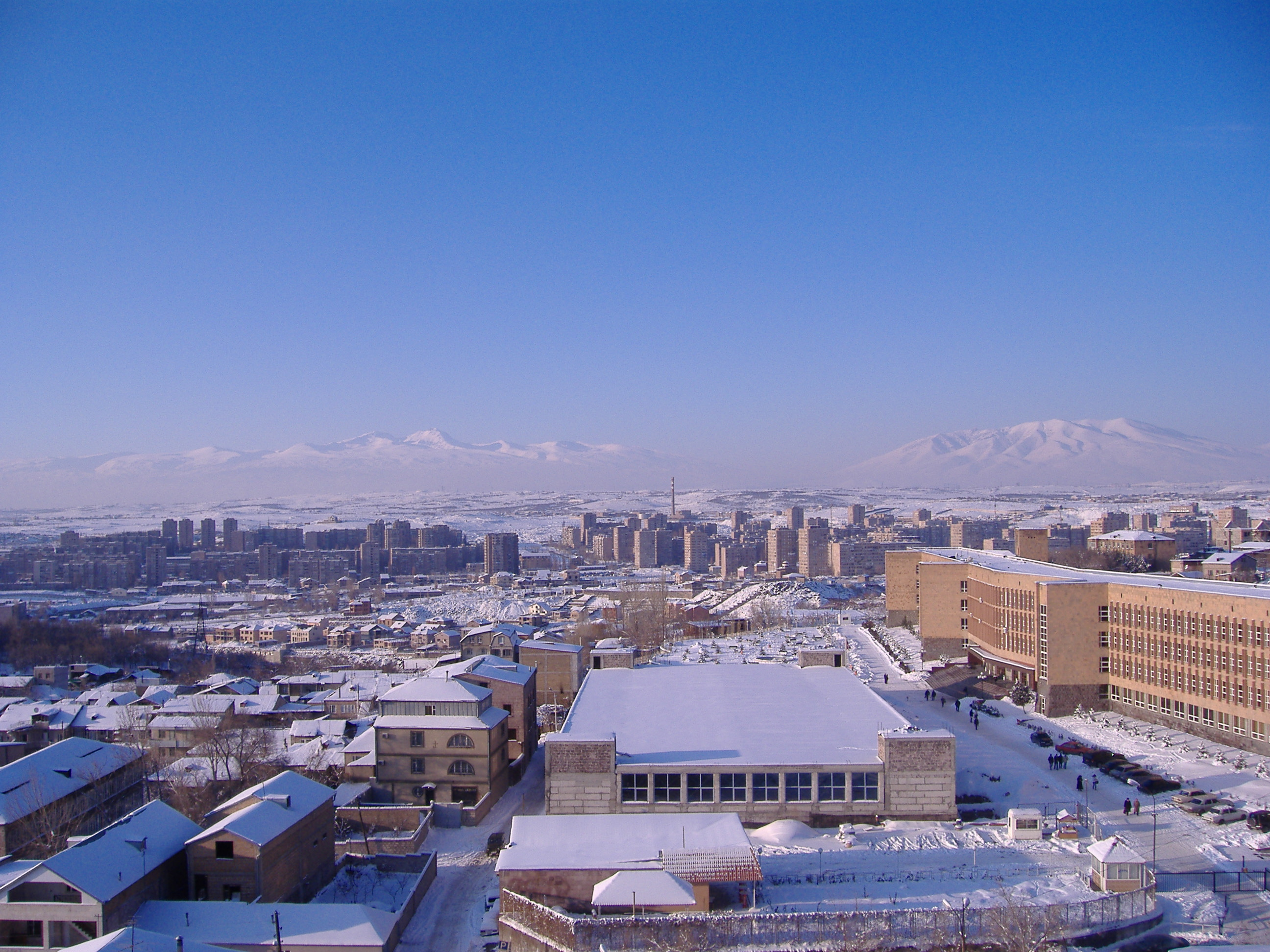 View of Mount Aragats and Arailer from Yerevan, Arabkir district (Yerevan) in the foreground and Davtashen in the background